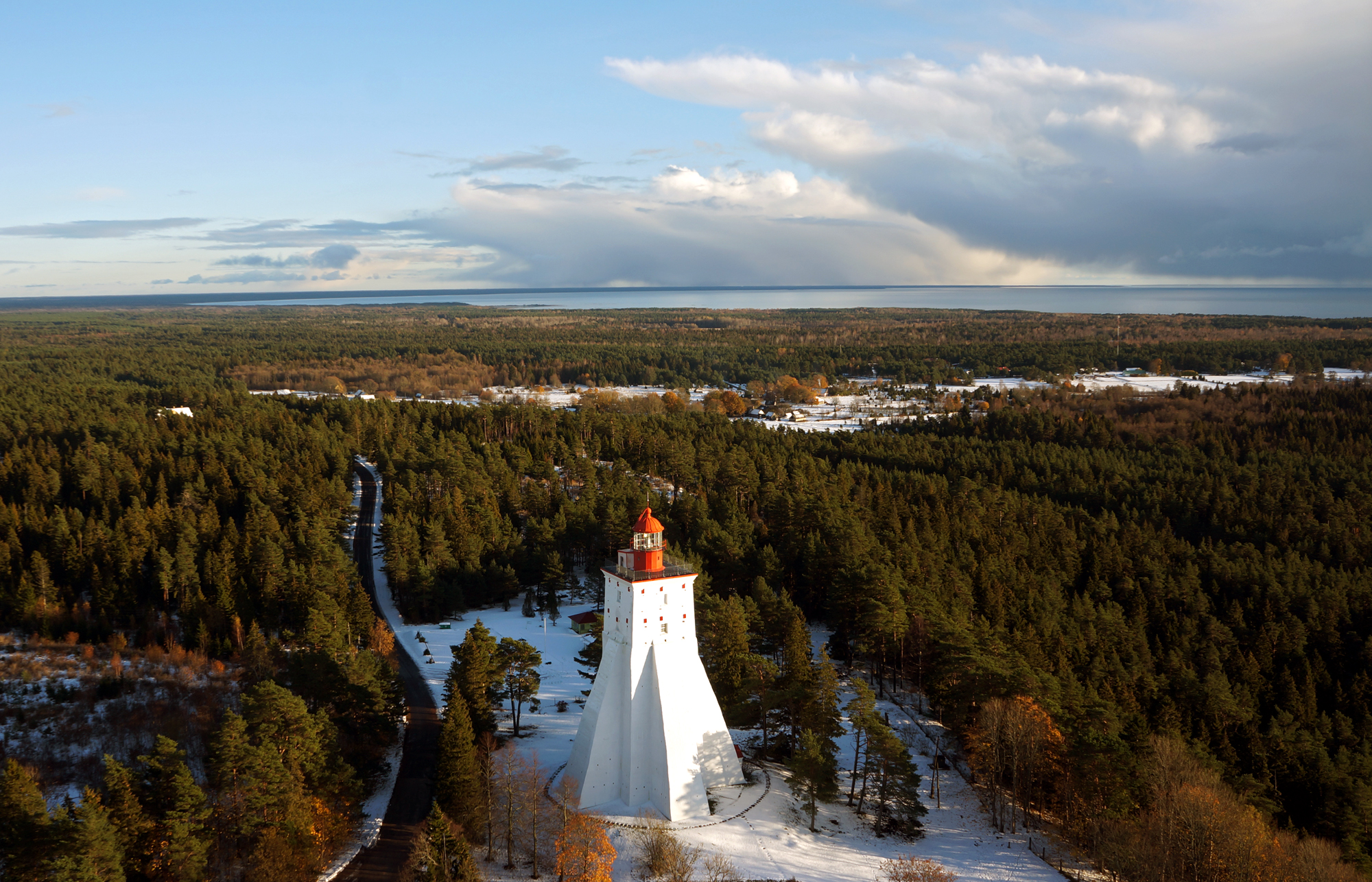 Kõpu tuletorn. Vaade ülevalt